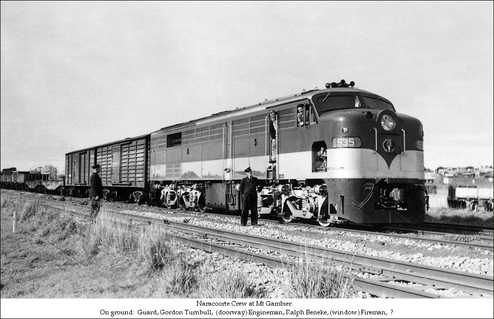 Naracoorte Crew at Mount Gambier (South Australia) on 930 class locomotive. Date late 1950's to early 1960's.